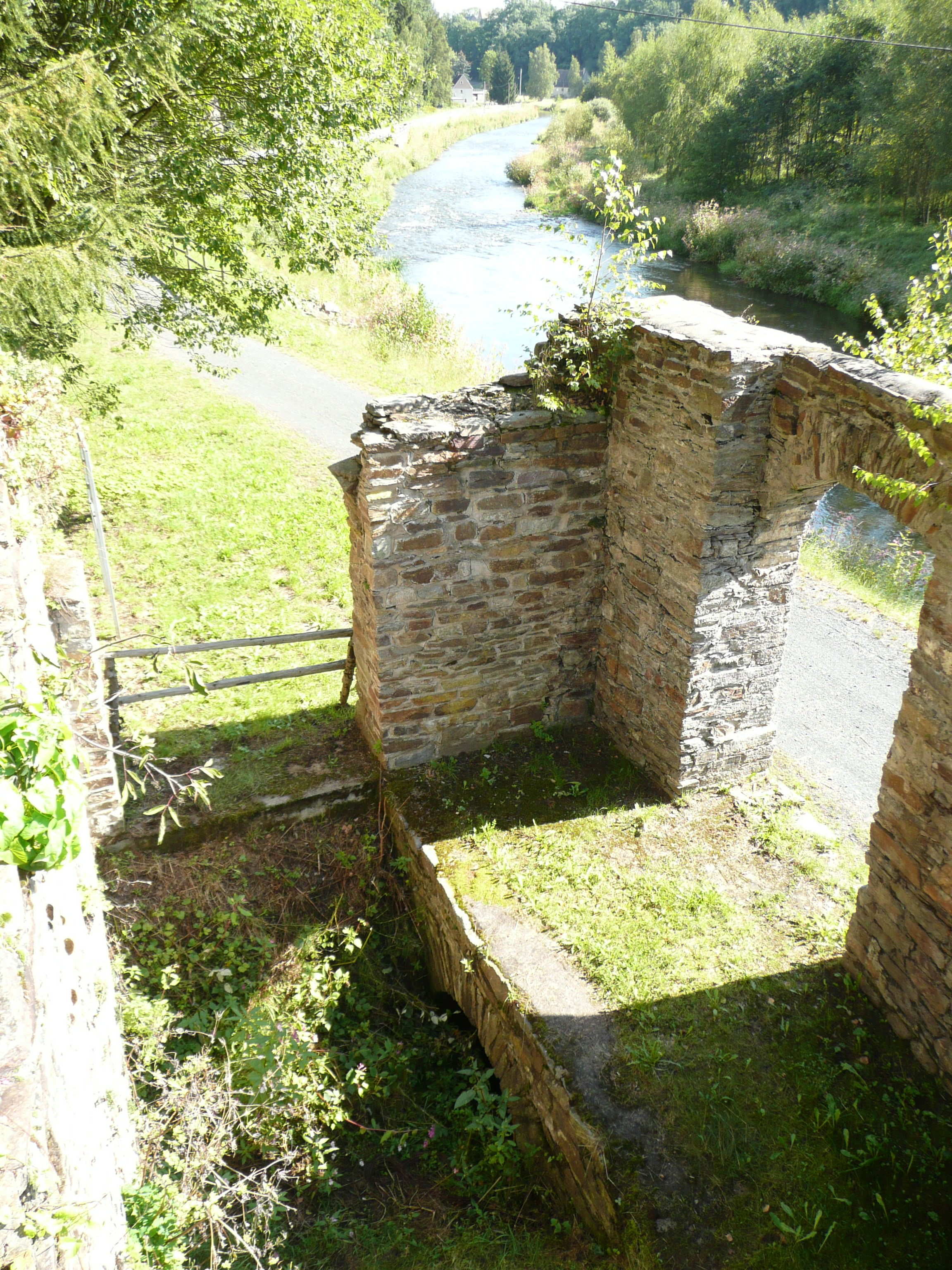 Kahnhebehaus (tub boat lift), near Großvoigtsberg, Saxony